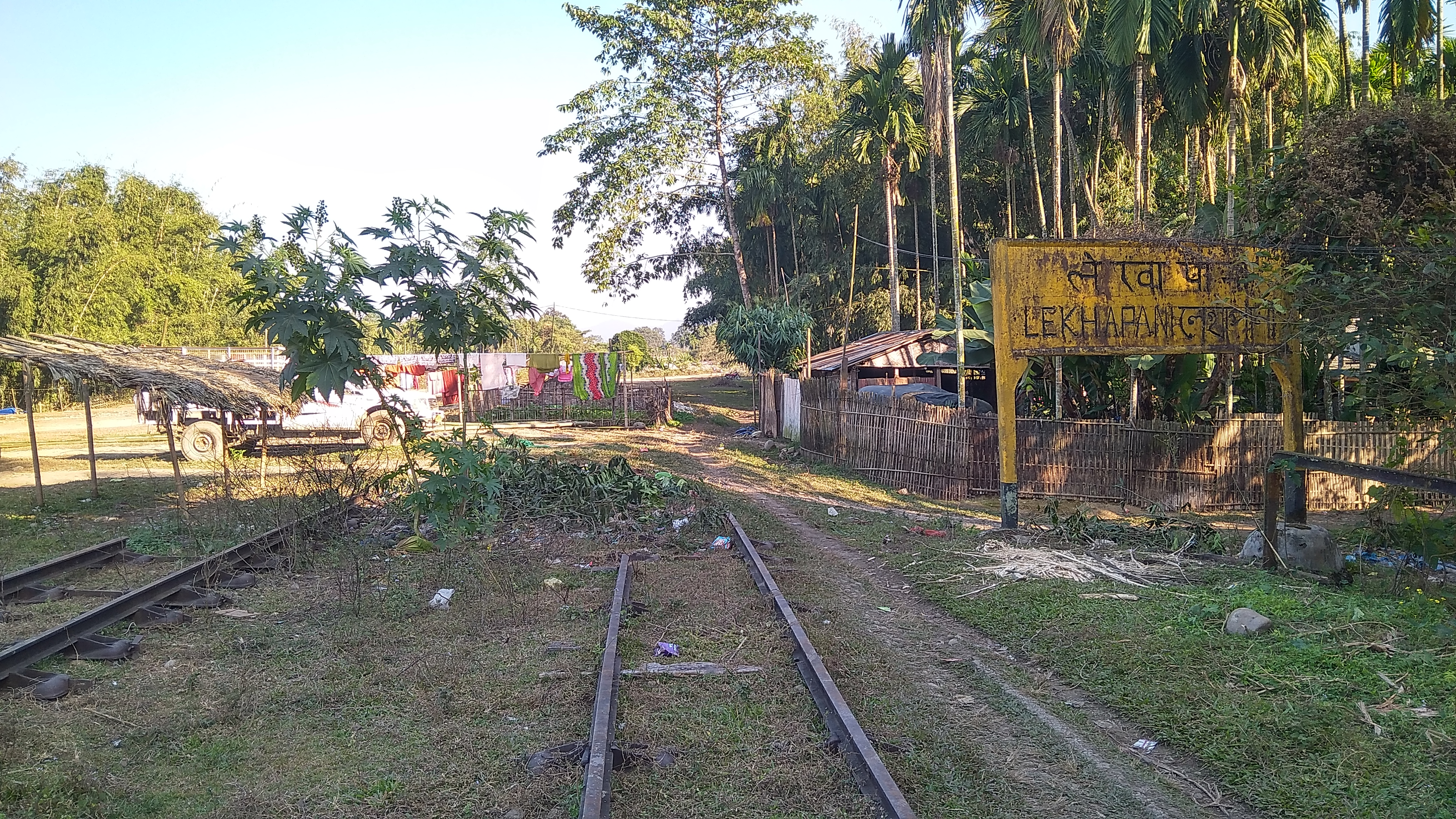 Lekhapani Station Name Board